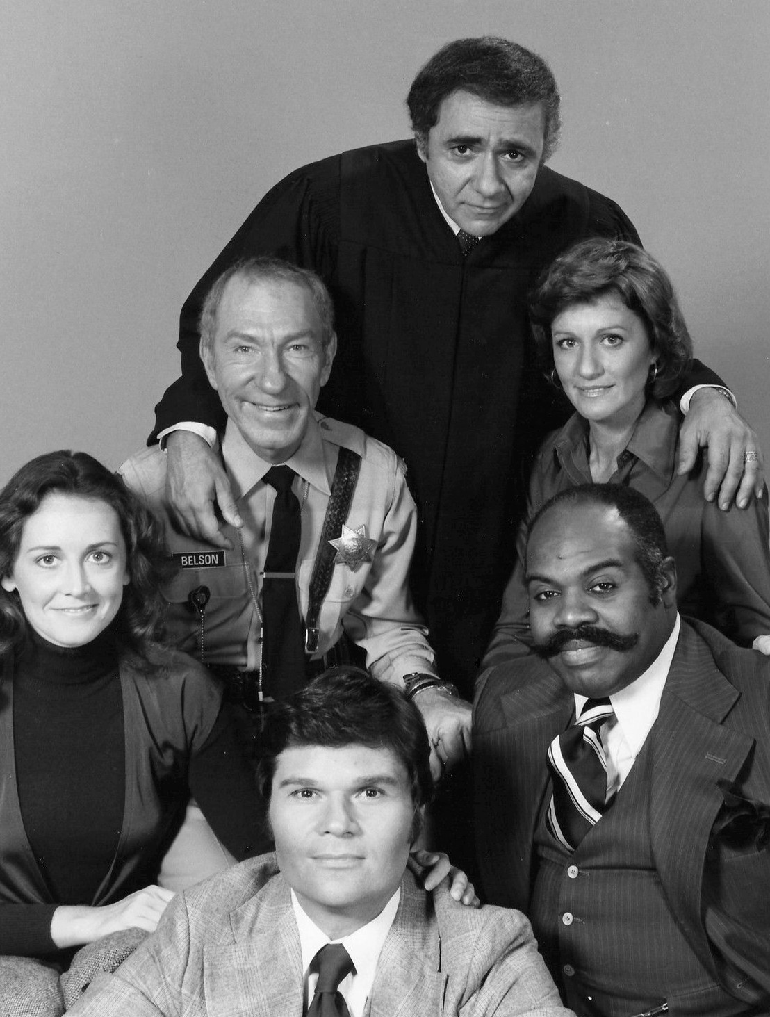 Photo of the cast of the short-lived comedy series Sirota's Court. Clockwise from center foreground:Fred Willard, Kathleen Miller, Owen Bush, Michael Constantine (Judge Matthew Sirota), Cynthia Harris, Ted Ross.